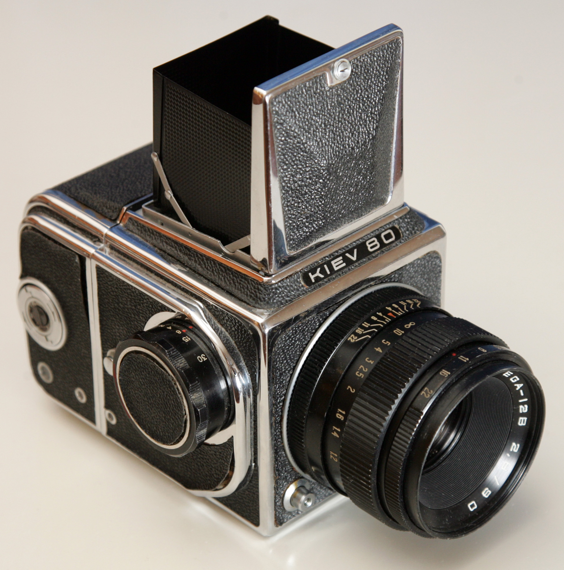 Kiev-80 (Salyut-S export version) Soviet modular camera with waist-level finder and Vega-12V lens